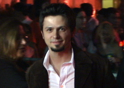 Freddy Rodriguez at the premiere of Harsh Times in Toronto International Film Festival 2005.